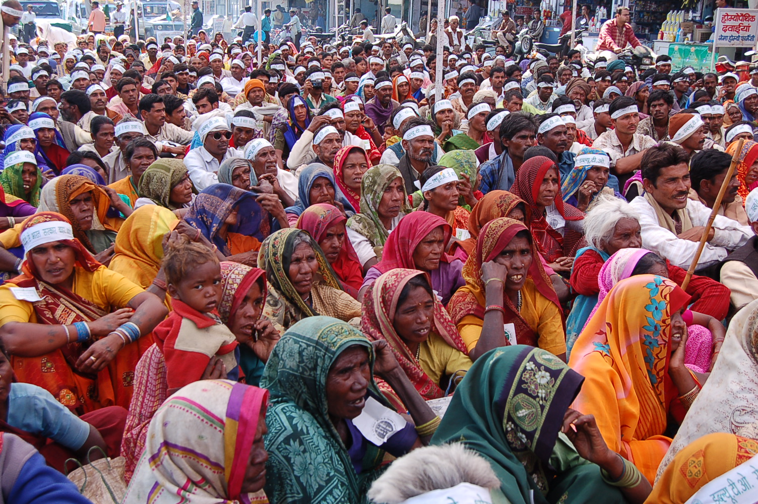 Women at farmers rally, Bhopal, India.